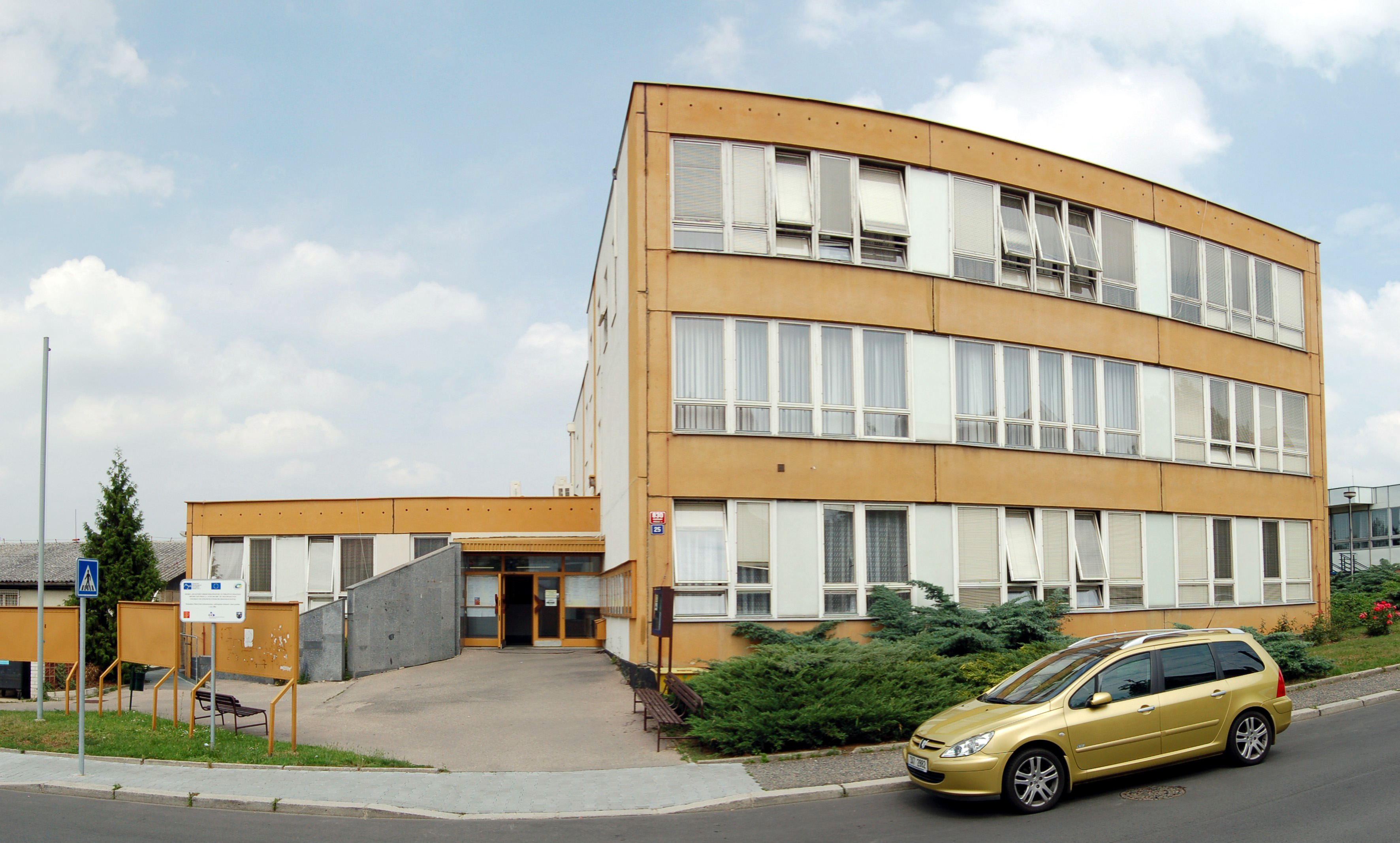 Prague 12 – Town hall